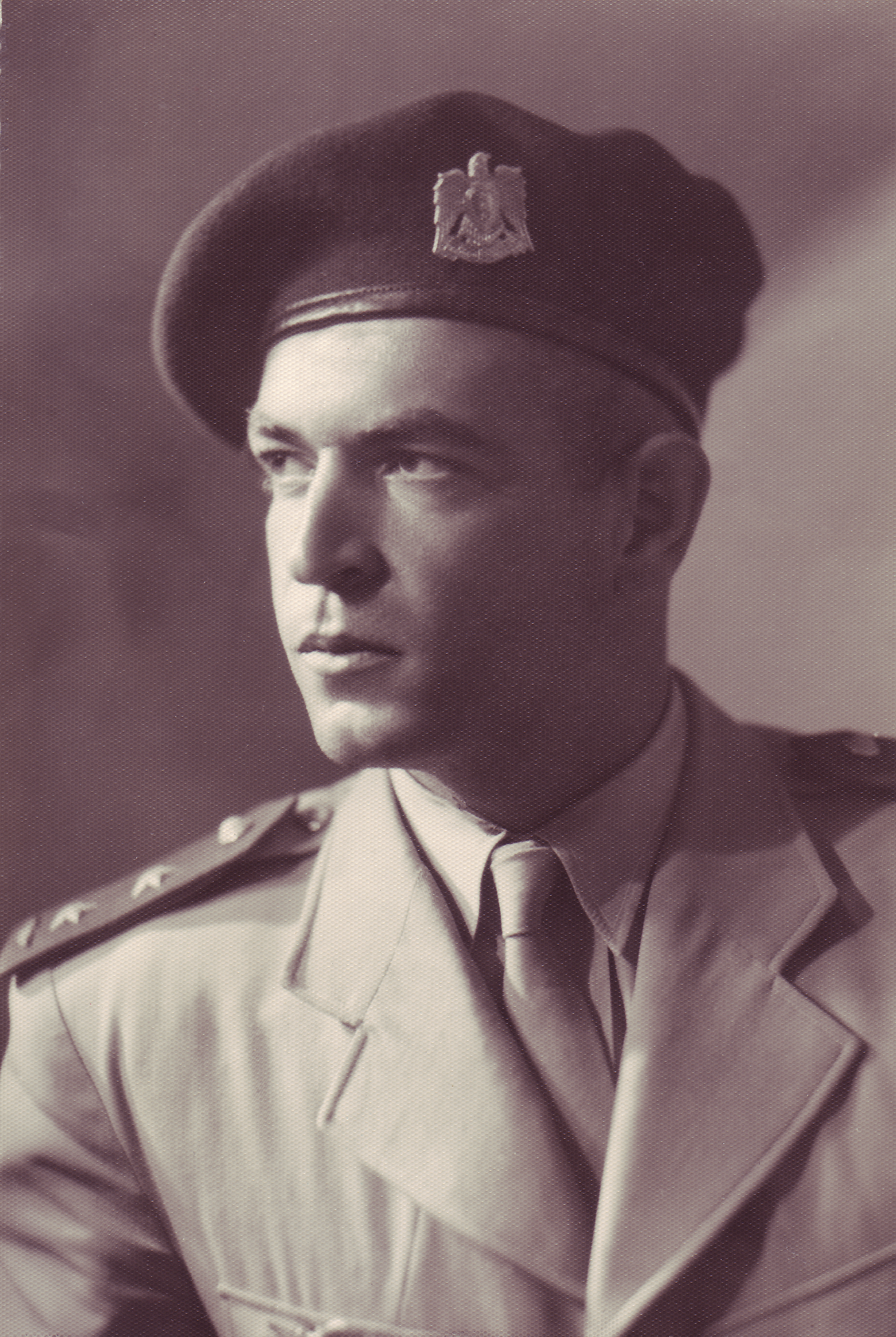 Military Profile Image of Basam Alasaly